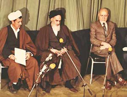 From right to left: Mehdi Bazargan, Ruhollah Khomeini, Rafsanjani Bahramani.